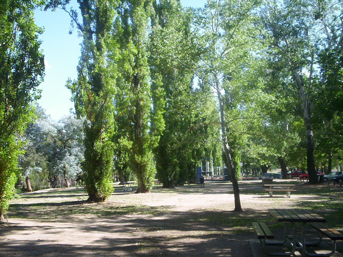 picnic area near the cotter river, just down from the dam. The river is off the extreme left of this photo.